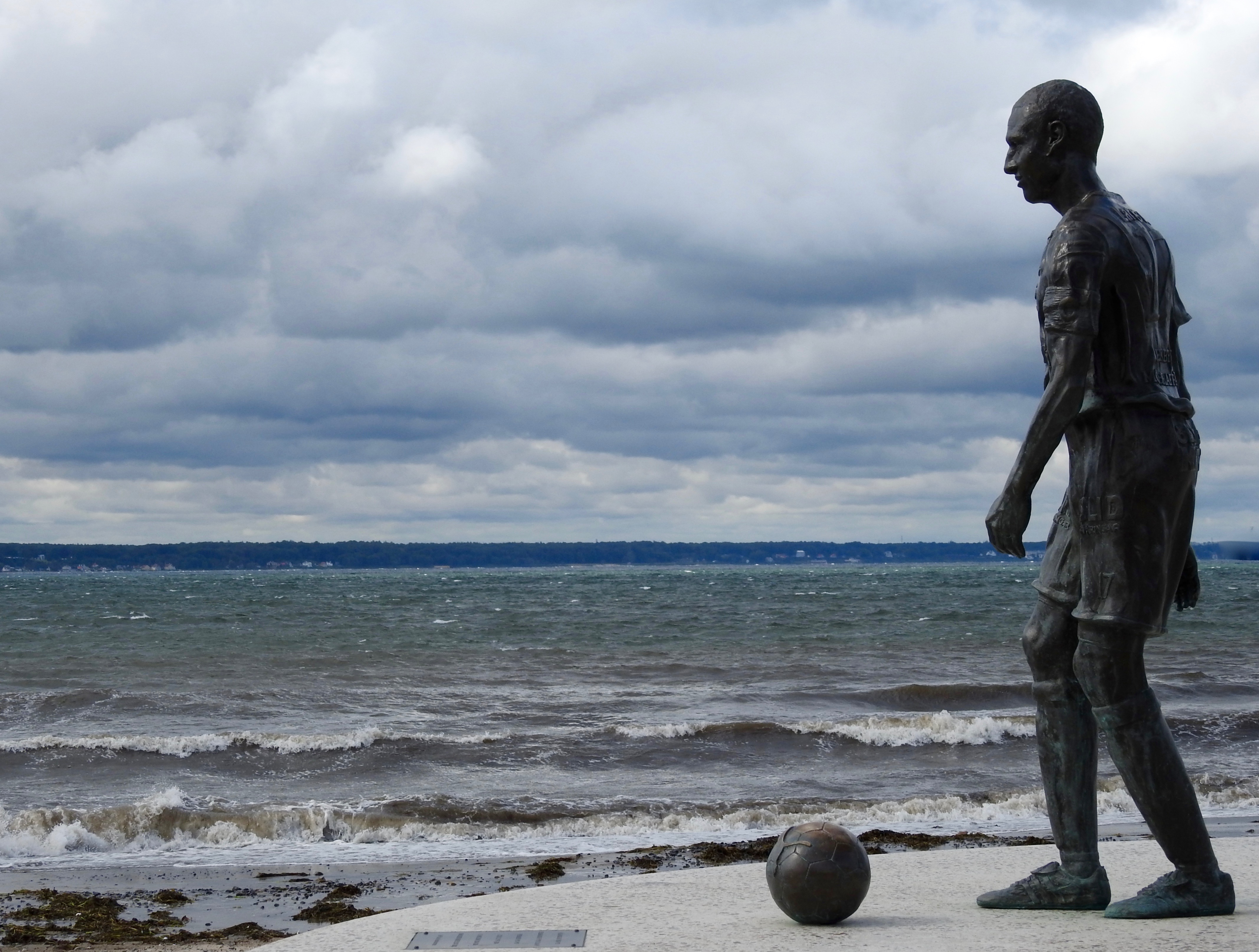 This is the statue of soccer player Henrik Larsson, located in his hometown, Helsingborg. The statue was erected June 2, 2011 after the initiatives of the brothers Oscar o Carl Åkerström. It's created by Björn Elmgren-Thulin